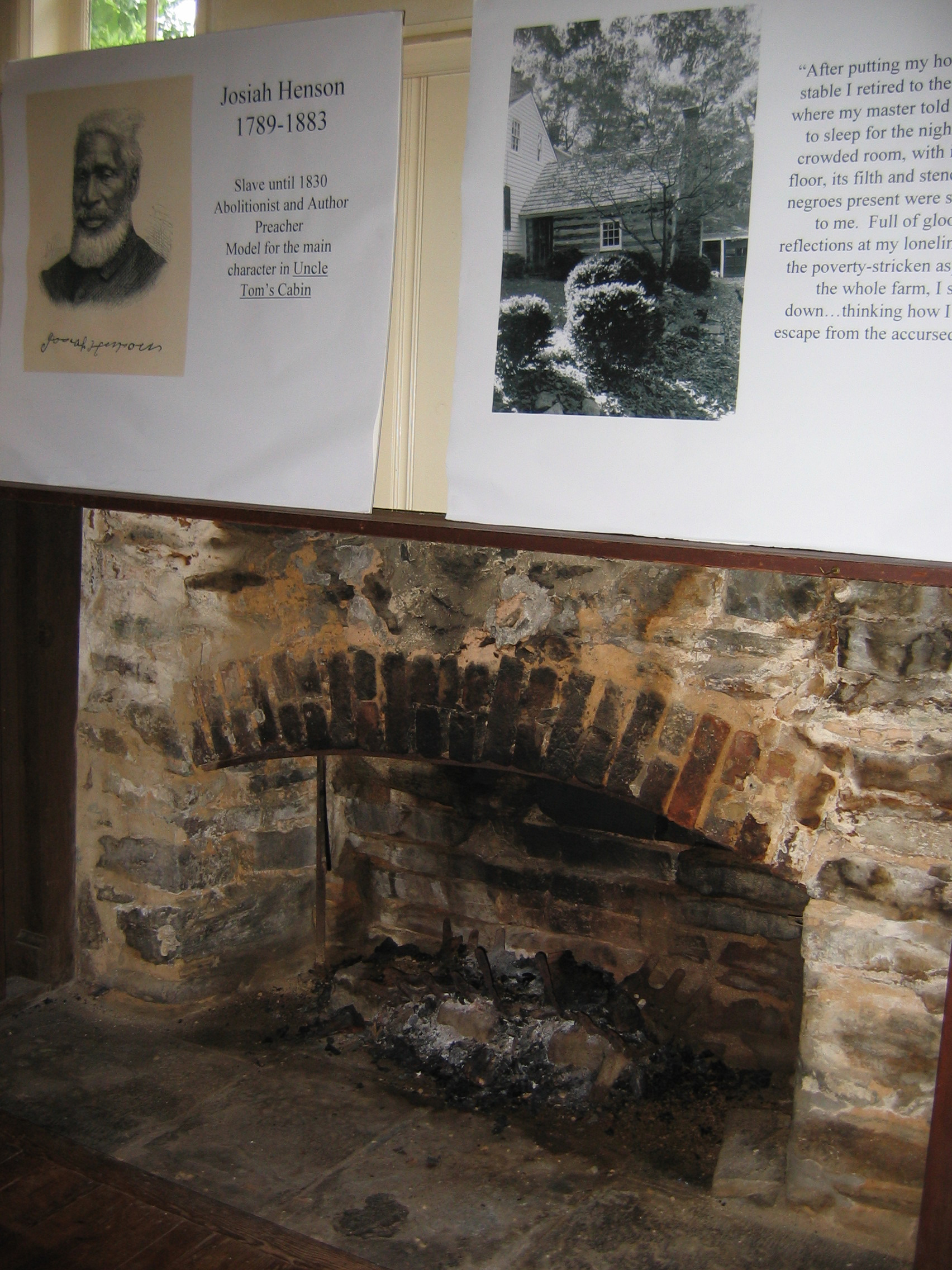 View inside what was the kitchen in Uncle Tom's Cabin (Riley House), located in Bethesda, Maryland. This was once home to Josiah Henson who inspired Harriet Beecher Stowe's novel, Uncle Tom's Cabin. Photo by User:Kmf164, taken on June 25, 2006.